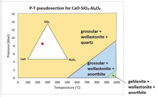 pseudosection